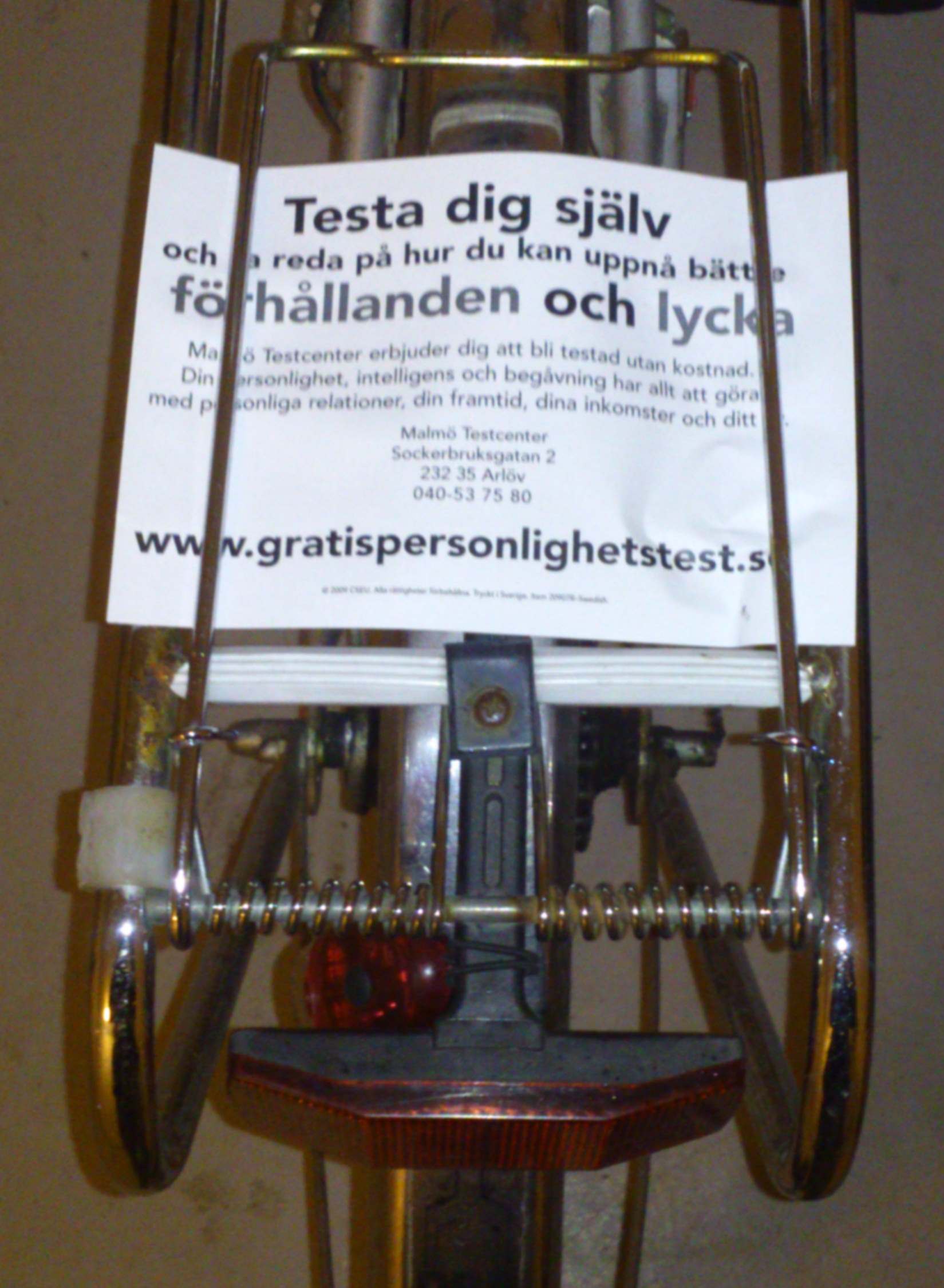 Swedish scientology flyer on a bicycle.